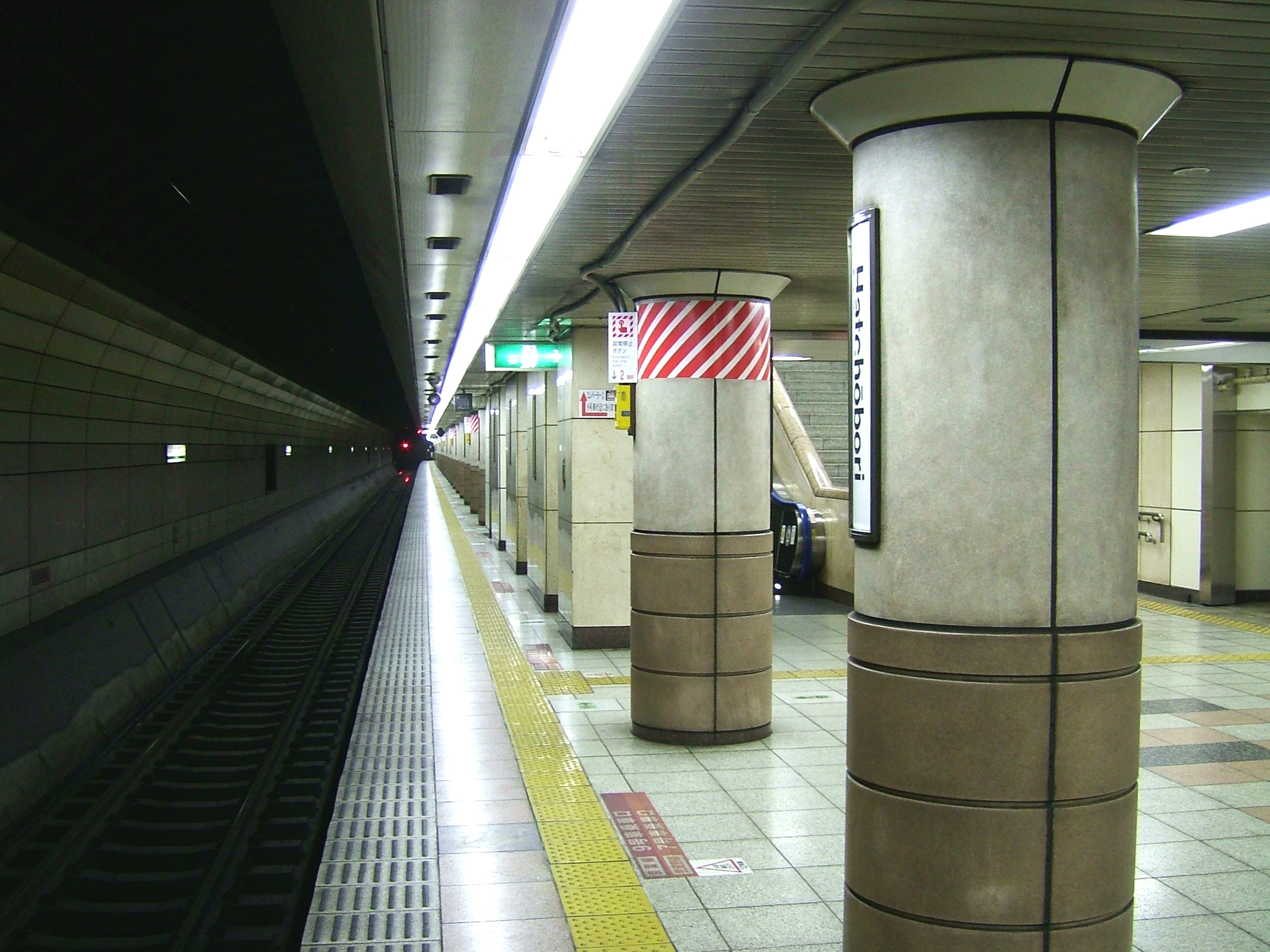 Hatchōbori Station platform (East Japan Railway Keiyō Line)